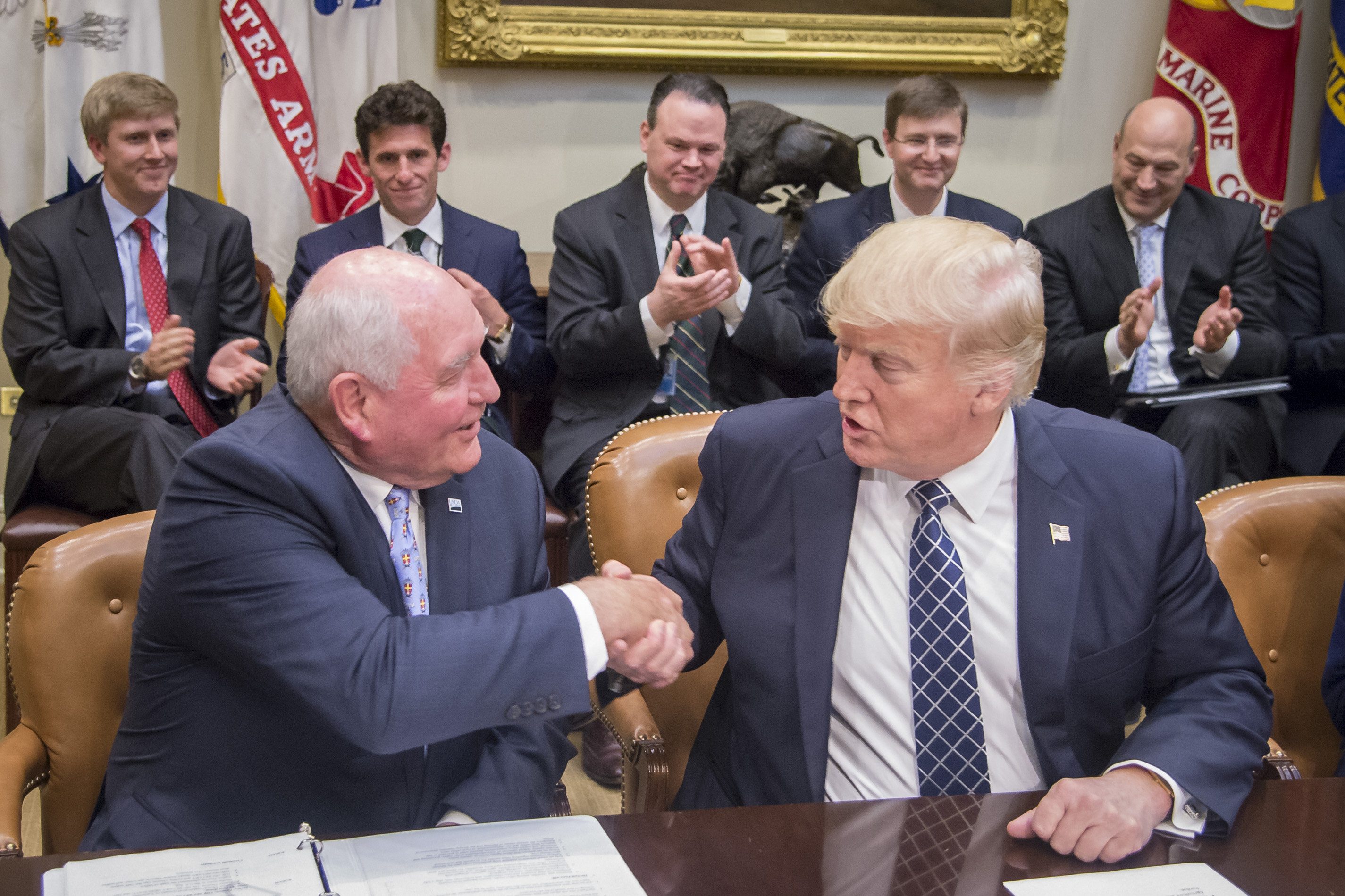 Agriculture Secretary Sonny Perdue attends a Farmer's Roundtable where President Donald Trump signed the Executive Order Promoting Agriculture and Rural Prosperity in America on April 25, 2017, at the White House in Washington, D.C. USDA photo by Preston Keres